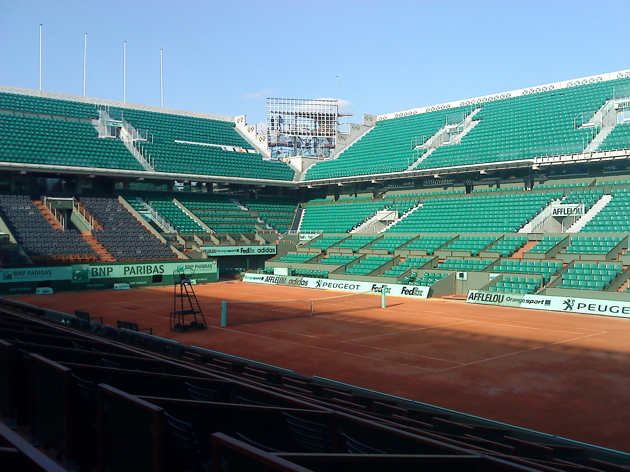 Philippe Chatrier central court in French Open Roland Garros